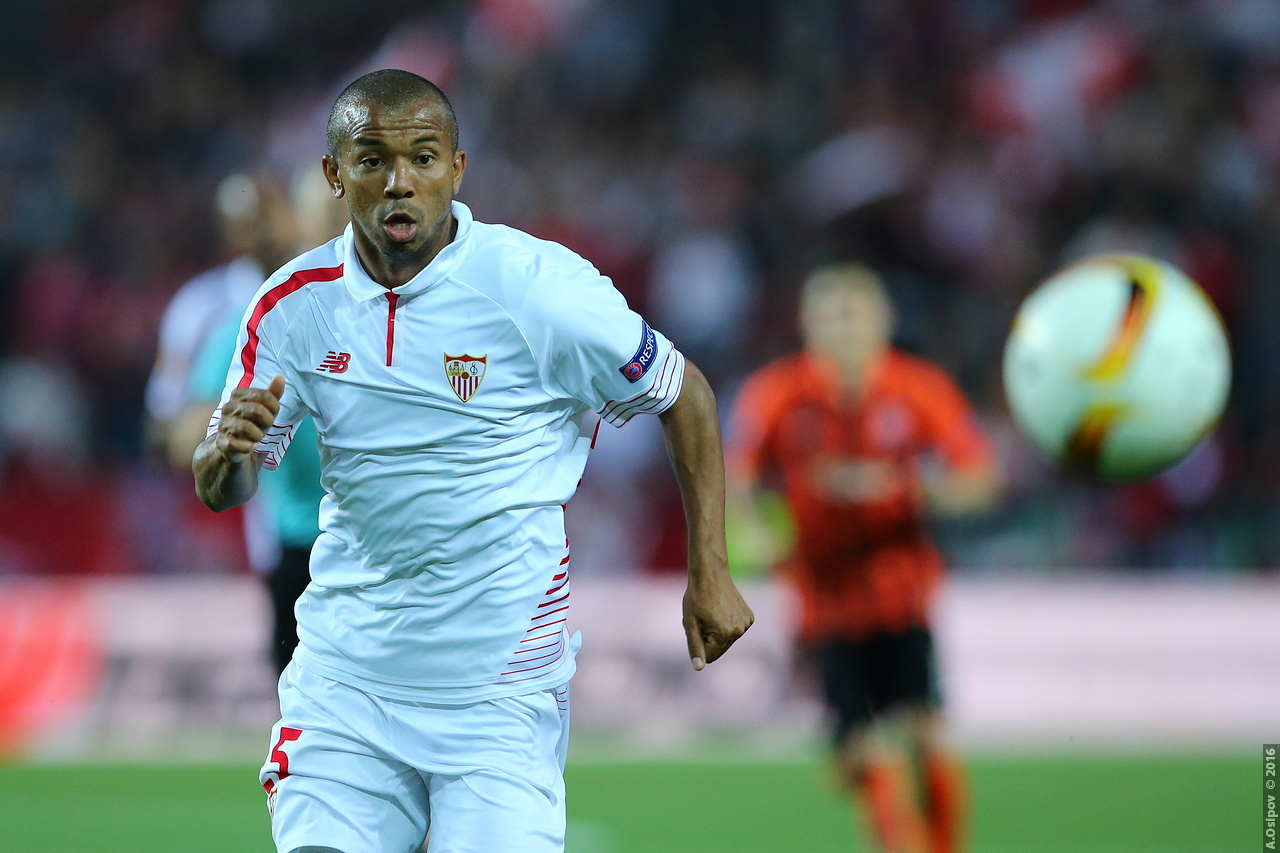 EFA Europa League 2015/16. Semi-finals. Return leg. May 5, 2016. Spain. Seville. Ramon Sanchez Pizjuan. 17 oC. Att: 41,269. Sevilla, Spain 3-1 (1-1) Shakhtar Donetsk, Ukraine Goals: 1-0 Gameiro (9), 1-1 Eduardo (44), 2-1 Gameiro (47), 3-1 Mariano Ferreira (59) Sevilla: Soria, Tremoulinas (Escudero, 74), Rami, Krychowiak, Carriço, Gameiro (Iborra, 82), N'Zonzi, Banega (Cristoforo, 89), Vitolo, Coke (c), Mariano Ferreira Unused subs: Rico, Pareja, Konoplyanka, Llorente Head coach: Unai Emery Shakhtar: Pyatov, Srna (c), Kucher, Rakits’kyy, Ismaily, Stepanenko, Malyshev, Kovalenko, Taison (Bernard, 76), Marlos (Nem, 84), Eduardo (Dentinho, 84) Unused subs: Kanibolotskyi, Kobin, Ordets, Facundo Ferreyra Head coach: Mircea Lucescu Booked: Marlos (11), Rakits’kyy (14) Kucher (20), Banega (30), Srna (48), Eduardo (61), Stepanenko (76), Vitolo (87), Ismaily (90) Referee: Bjorn Kuipers (Netherlands)